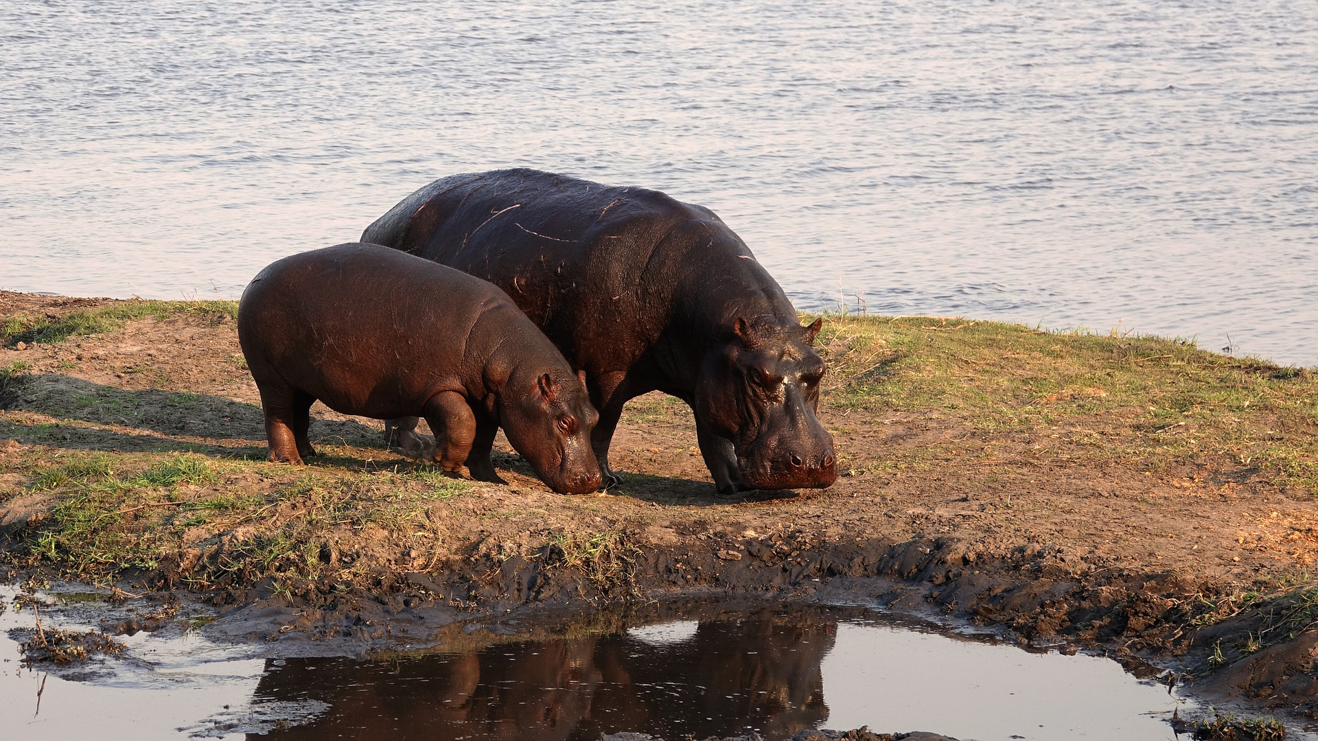 A hippo with a young one in Botswana.